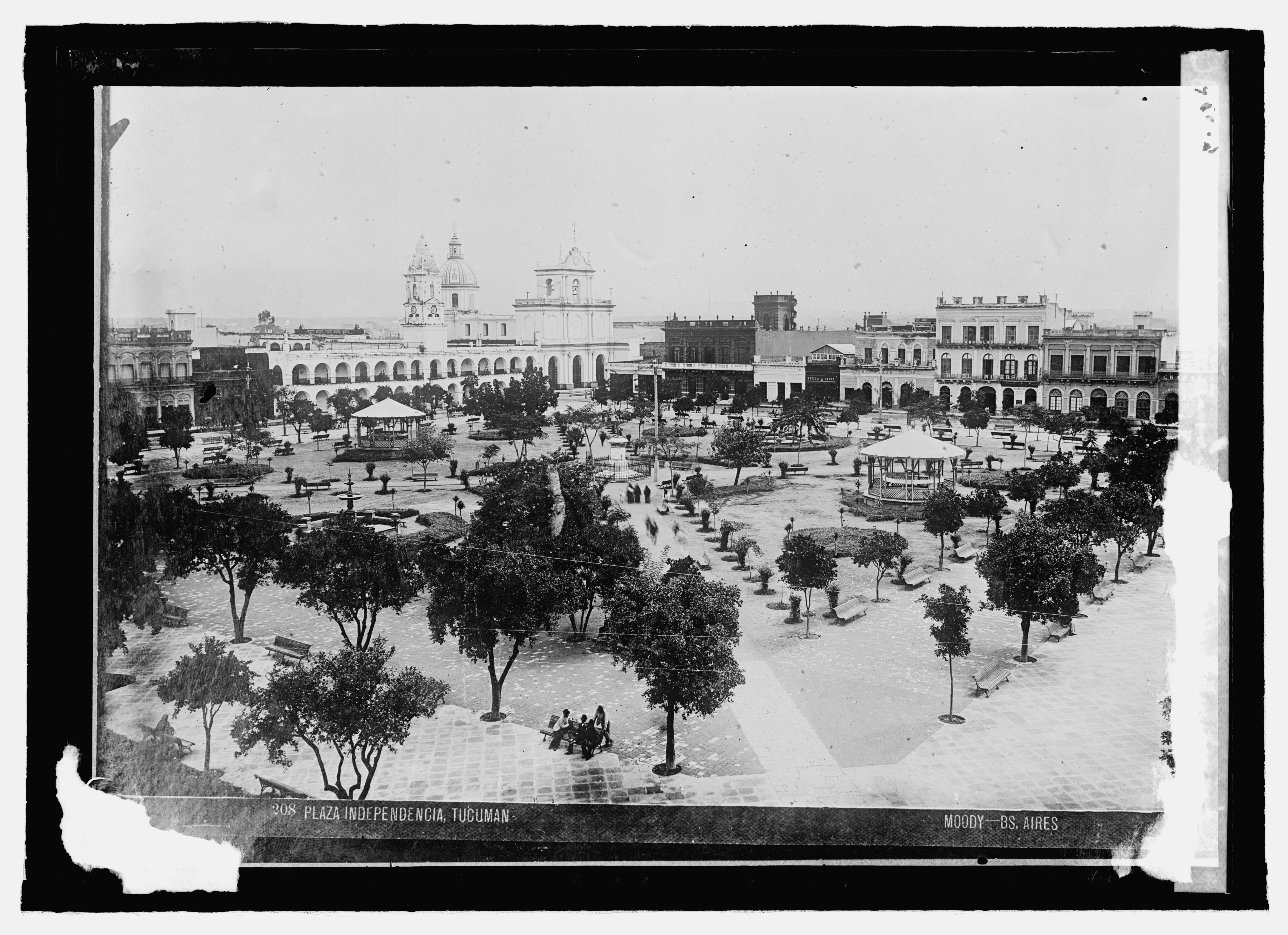 Title: Argentine. Tucuman, Plaza Independencia Abstract/medium: 1 negative : glass ; 5 x 7 in. or smaller